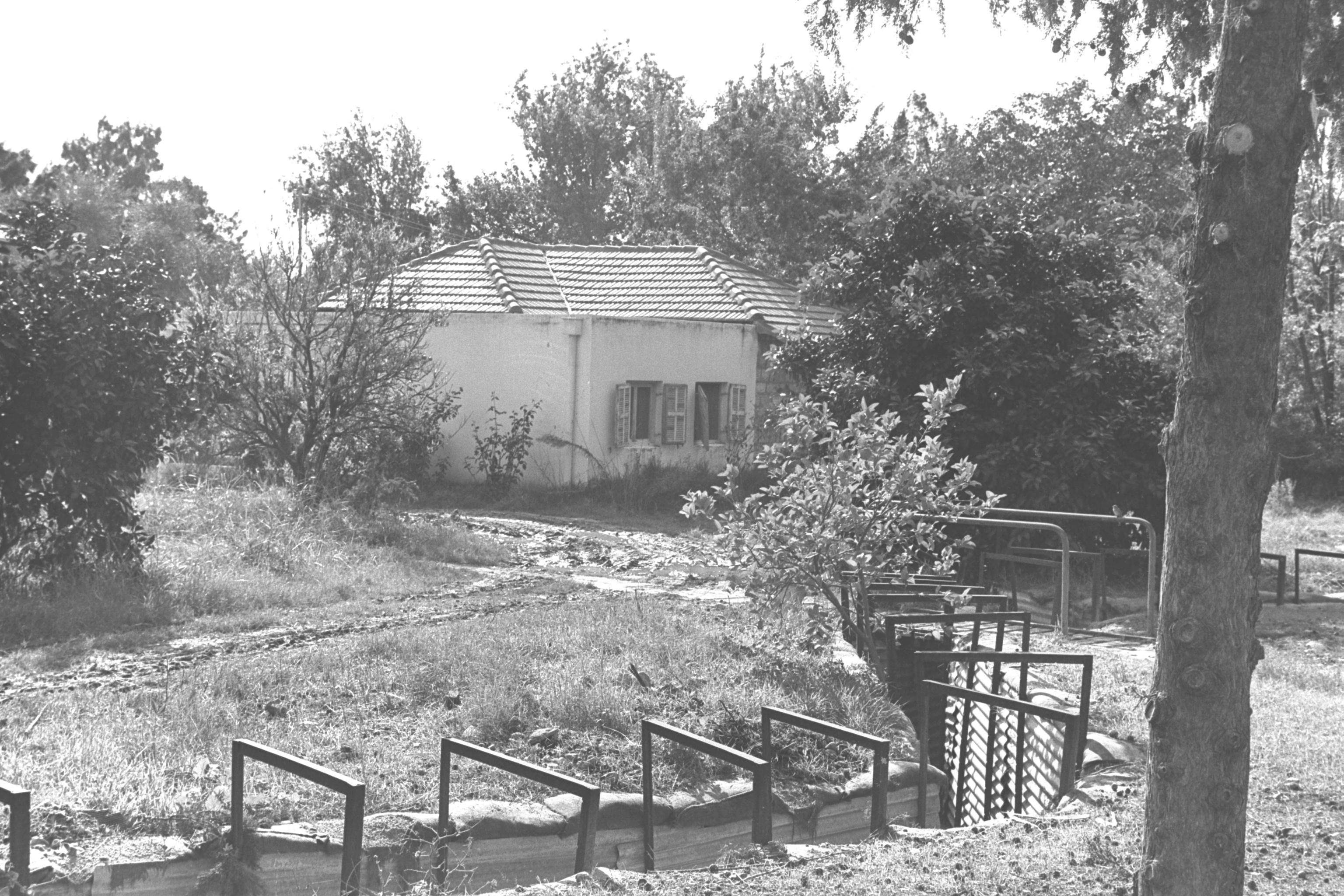 EMERGENCY TRENCHES LEADING FROM HOUSES OF KIBBUTZ MEMBERS TO UNDERGROUND SHELTERS AT KIBBUTZ DAN NEAR SYRIAN BORDER.